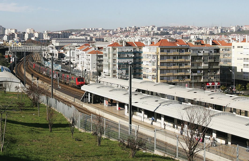 Estação ferroviária da Damaia.